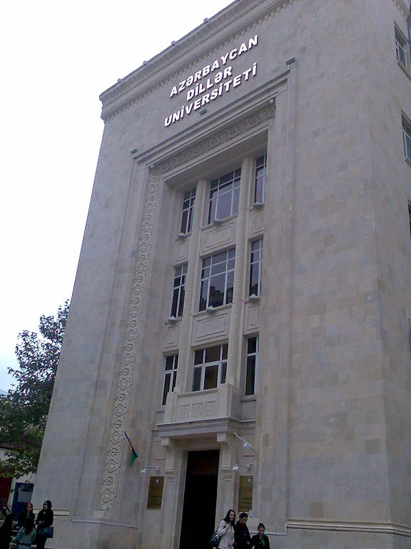 Azerbaijan University of Language